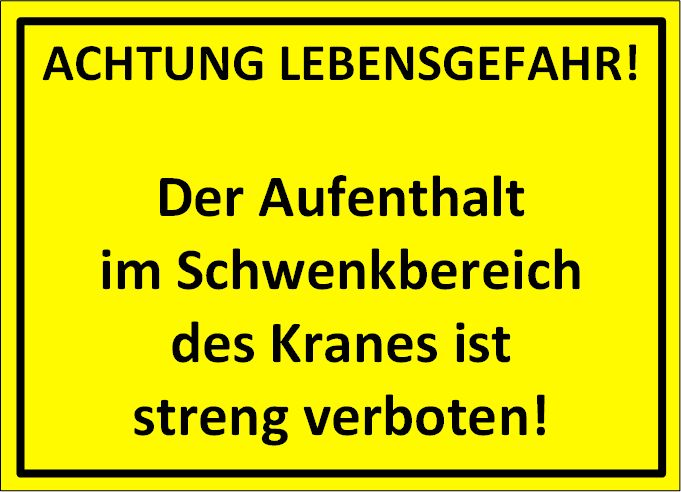 Warning crane swivel range